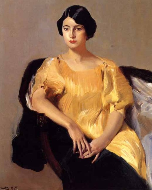 Portrait of Elena Sorolla García wearing a yellow pleated silk Delphos gown by Mariano Fortuny.